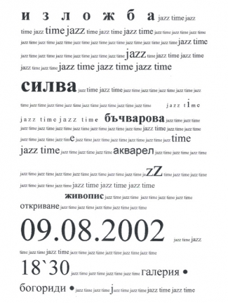 Poster of the Exhibition Jazz Time of Silva Batchvarova at Gallery Bogoridi, Burgas, August 2002